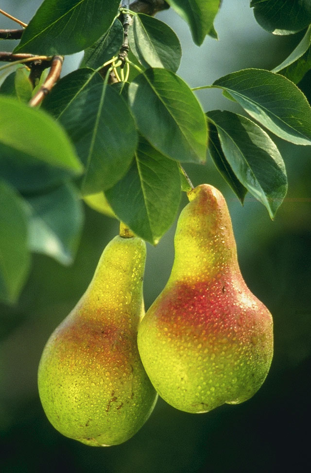 Though the pears pictured do not have a texture suitable for good eating, scientists at the ARS Appalachian Fruit Research Station in Kearneysville, West Virginia, will combine their fire blight-resistant qualities with other lines possessing traits sought in commercial pear varieties. Walon: Deus poeres å dbout des coxhes d' on poerî.